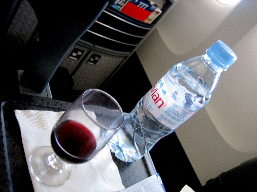 Glass of red wine + Evian water bottle in First class of a American Airlines Boeing 777-200ER.